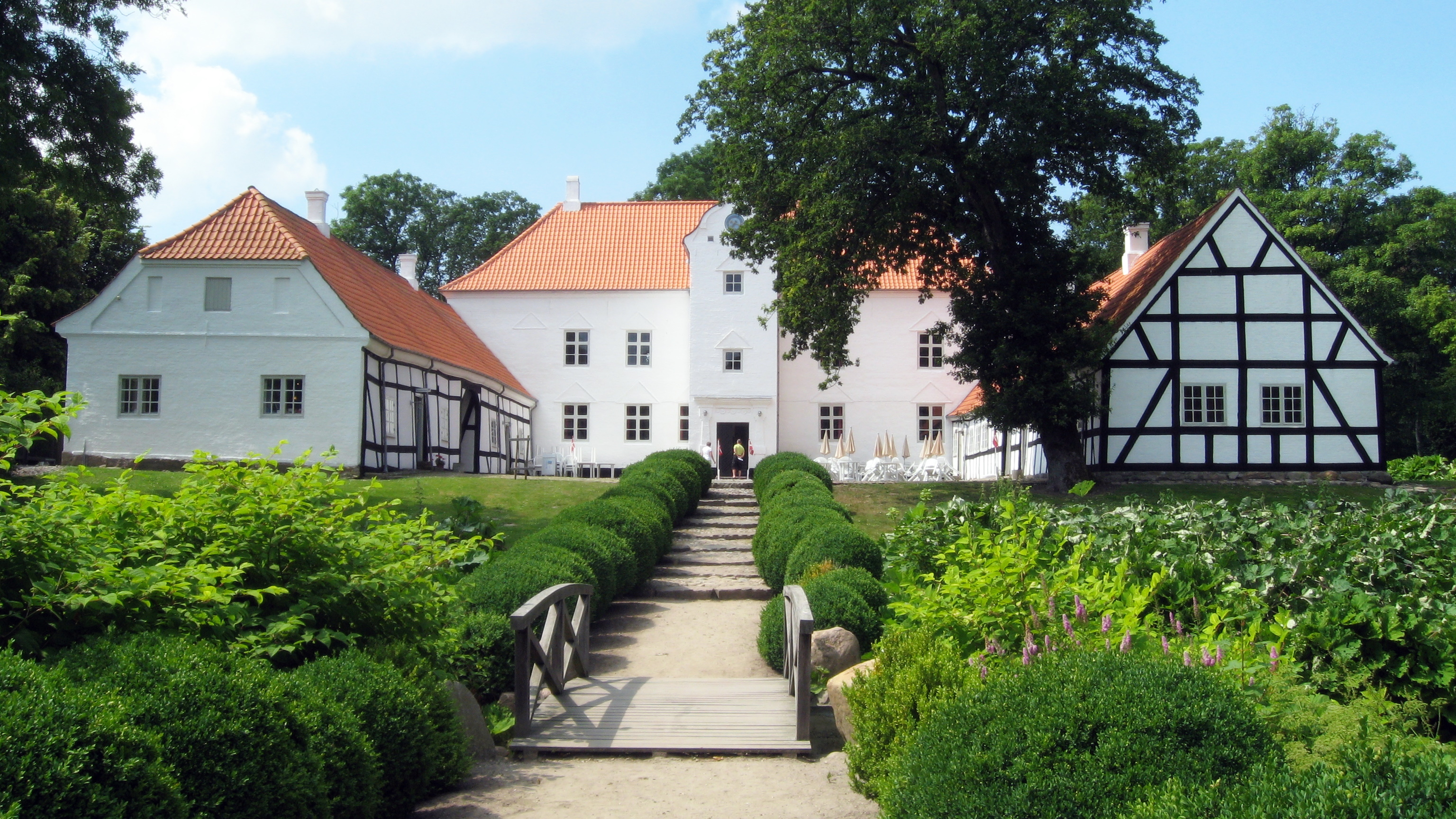 Bratskov - a mansion in northern Denmark